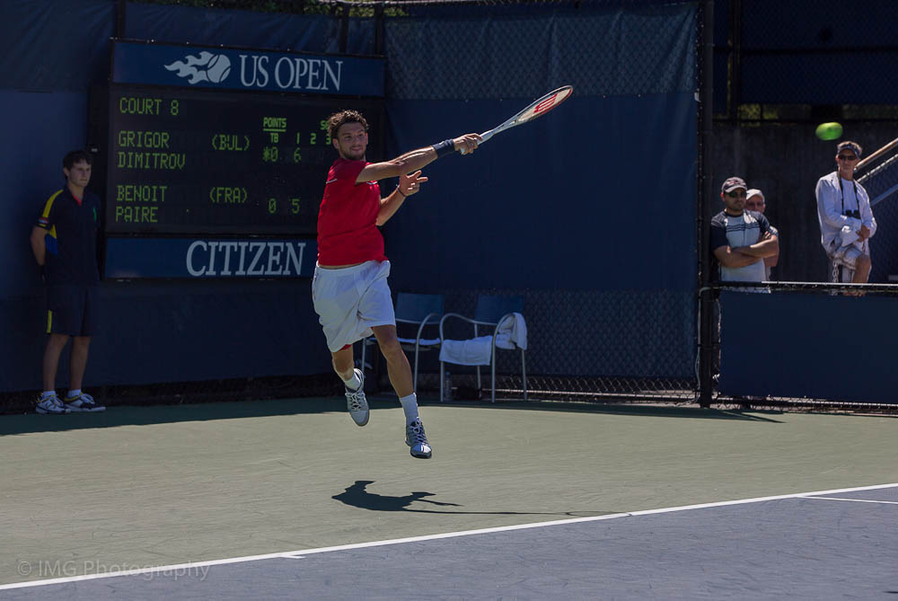 Grigor Dimitrov at the 2012 US Open